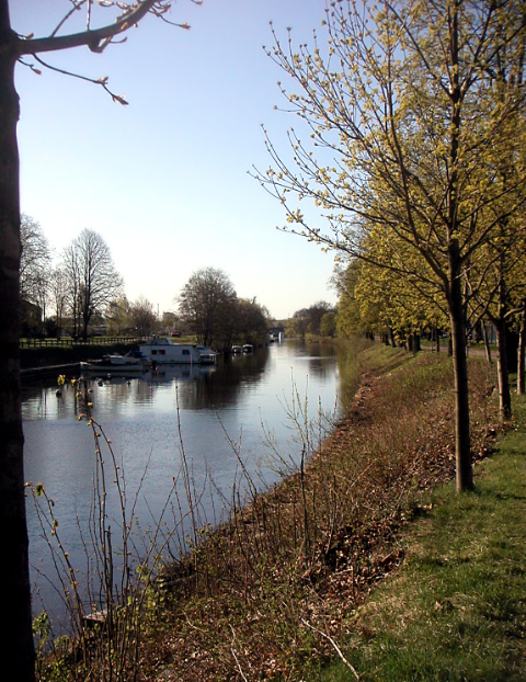 Fyrisån, a small river floating through Uppsala, Sweden